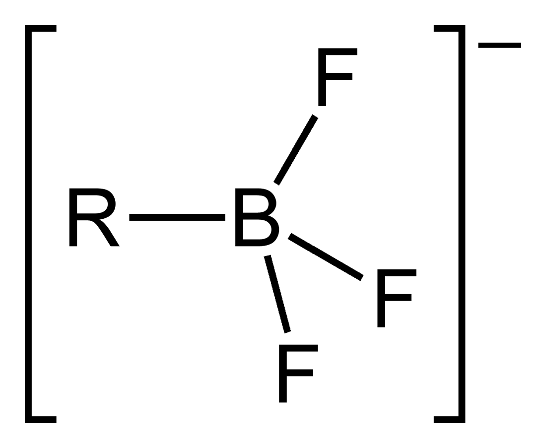 General structural formula of an organotrifluoroborate anion, [RBF3]−. Structure drawn in ChemBioDraw Ultra 12.0.